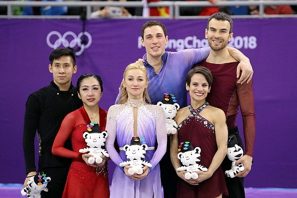 The pairs podium at 2018 Winter Olympic Games From left Sui Wenjing/Han Cong (2nd), Aliona Savchenko/Bruno Massot (1st), Megan Duhamel/Eric Radford (3rd).